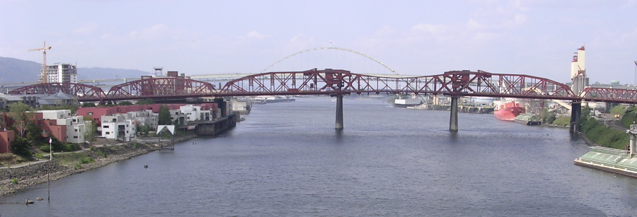 The Broadway Bridge in Portland, Oregon taken from the Steel Bridge to the southwest. The Fremont Bridge is in the background. Taken by Cacophony on September 1, 2004. Category:Images of Portland, Oregon